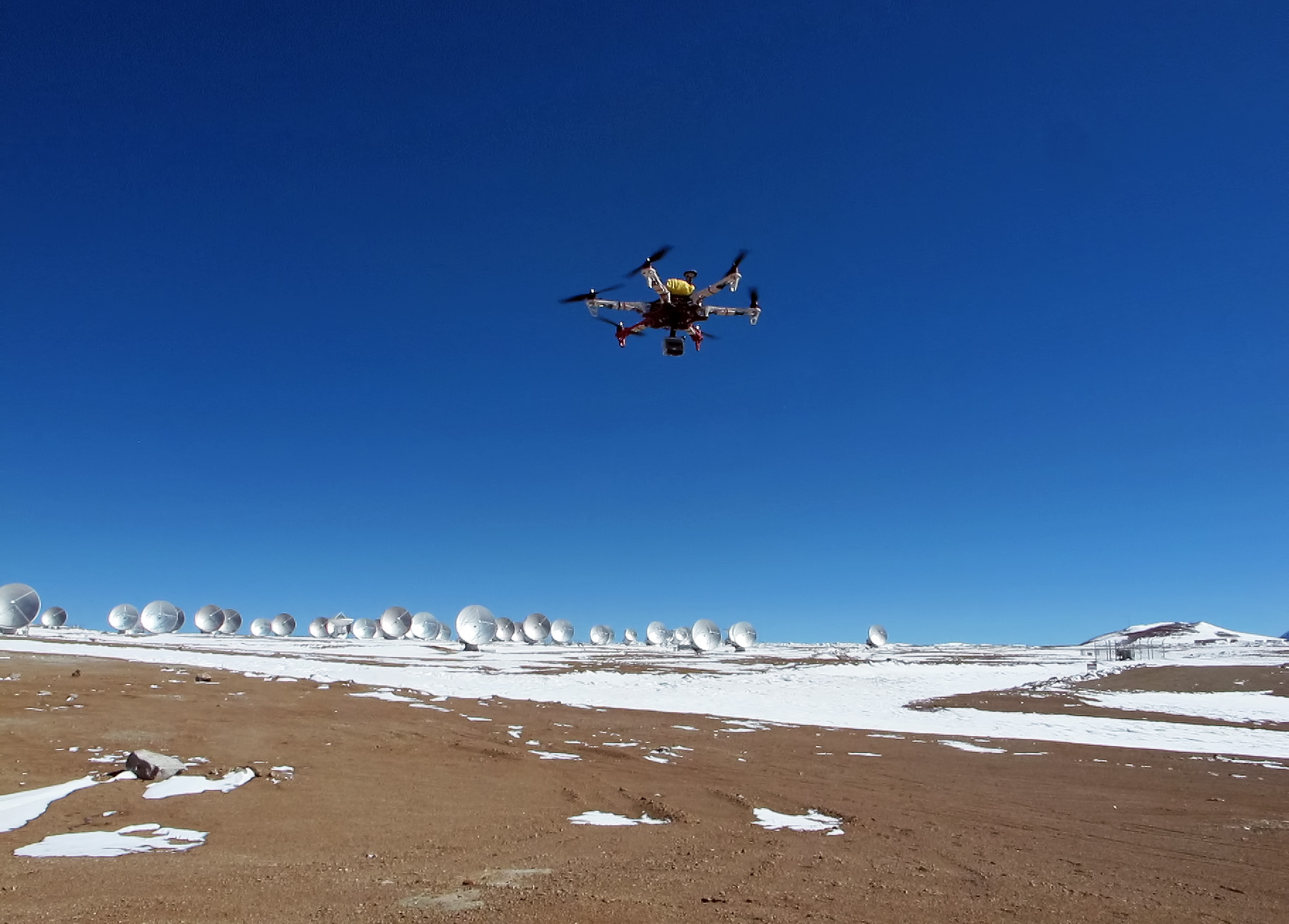 This strange looking contraption is a hexacopter, installed with a camera, which can be used for radio-controlled aerial cinematography and photography. In the background the Atacama Large Millimeter/submillimeter Array (ALMA) sprawls out across the Chajnantor Plateau in Chile soon to be photographed from above.